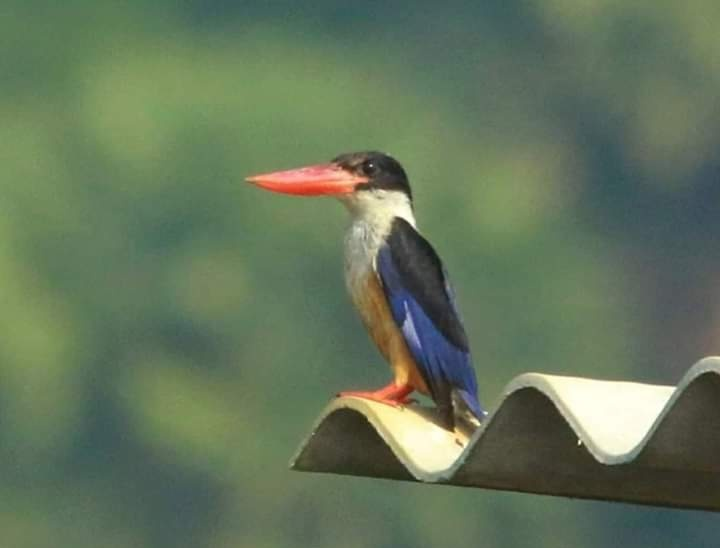 Black capped kingfisher